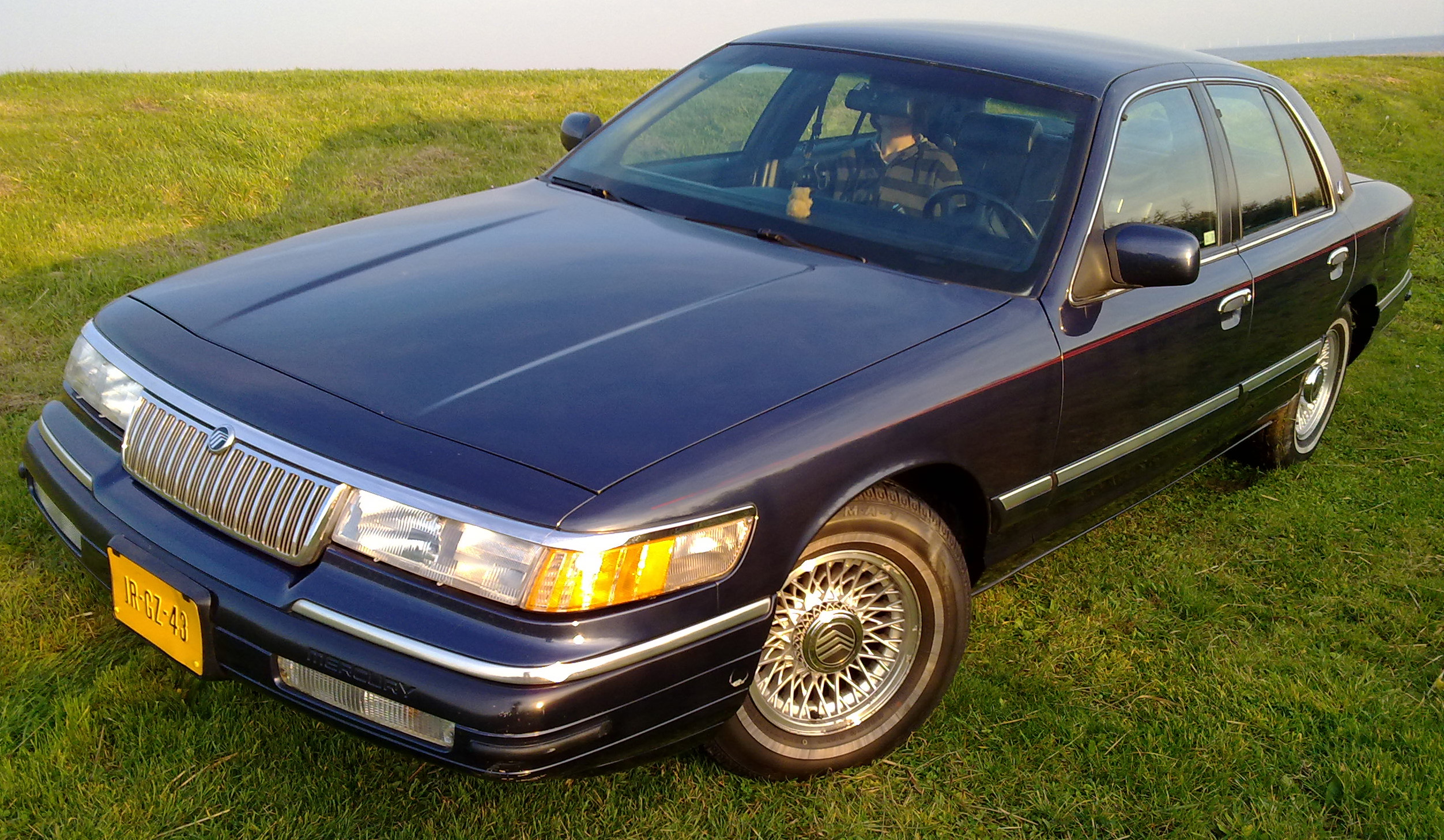 1994 Mercury Grand Marquis LS